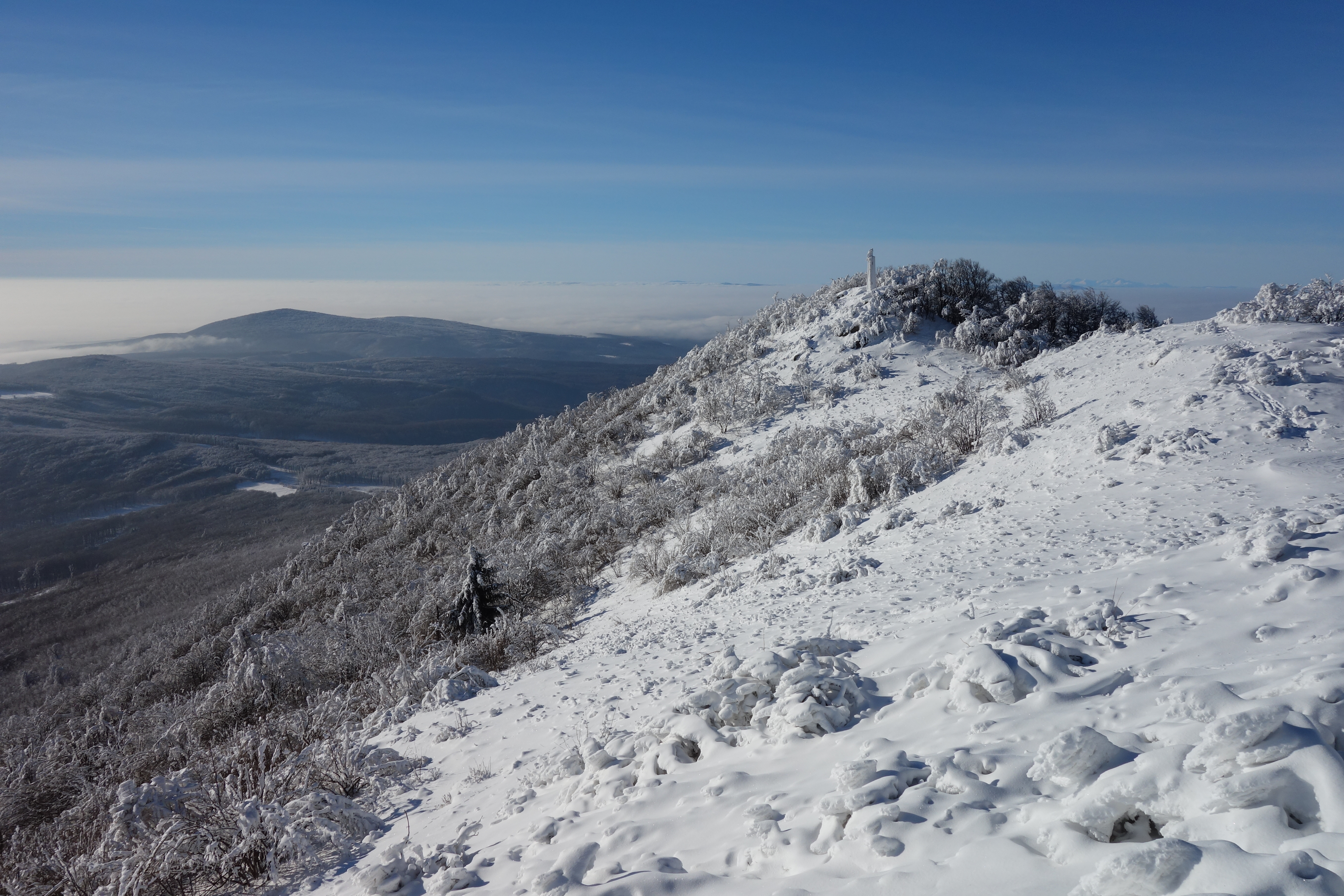 Vihorlat in the winter This is a photography of Natura 2000 protected area with ID SKUEV0025